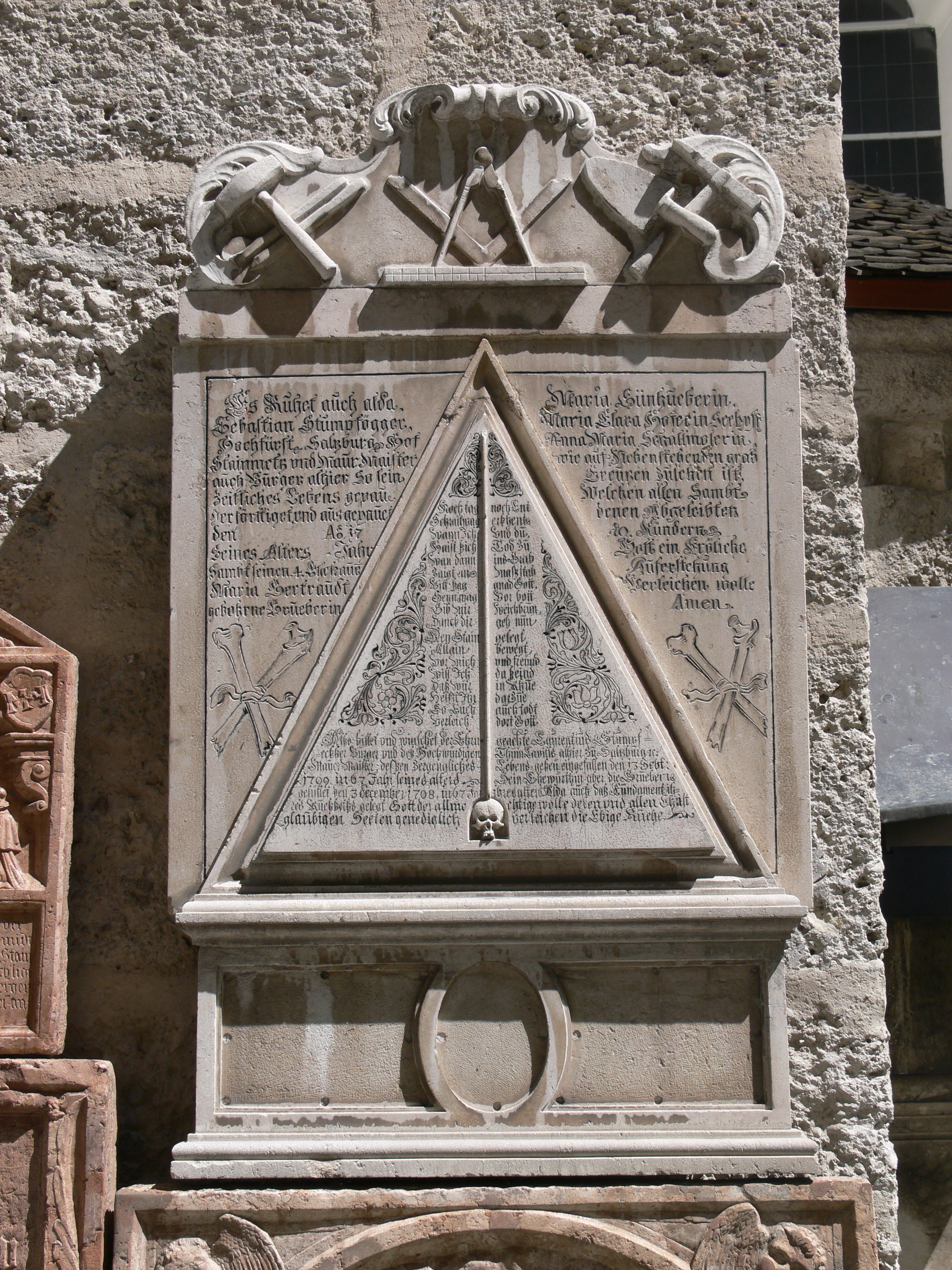 Petersfriedhof Salzburg Epitaph to the master masons of Sebastian Stumpfegger's family